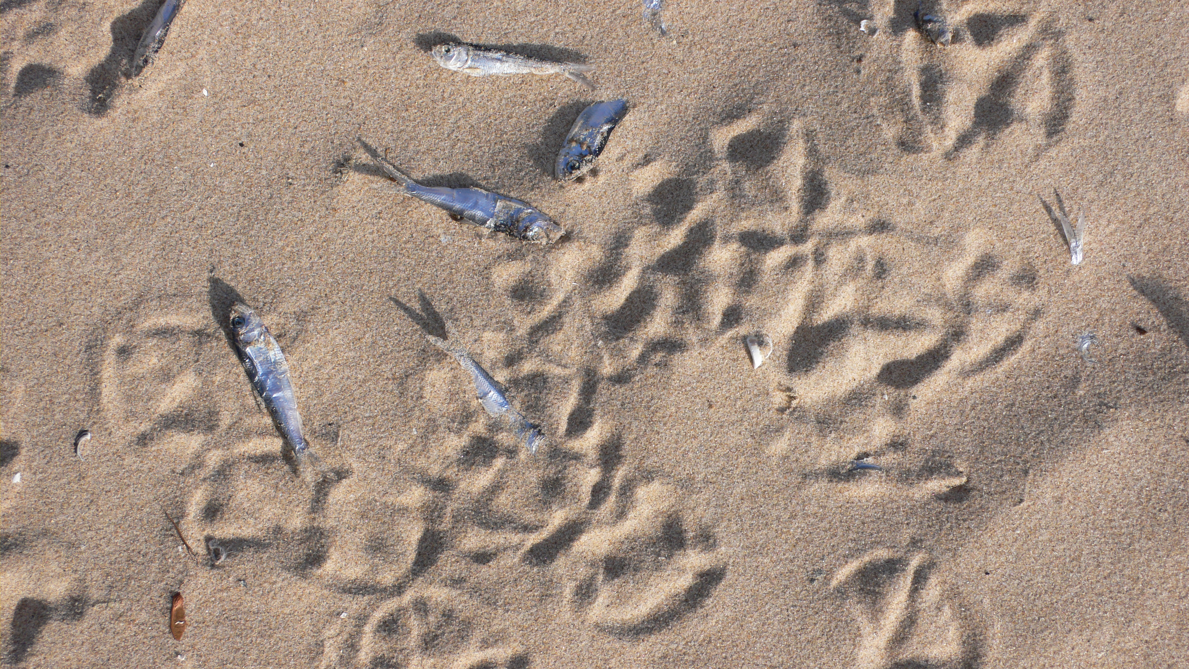 Dead alewives, Alosa pseudoharengus, on the beach at Whitefish Dunes State Park with waterfowl footprints in the sand.